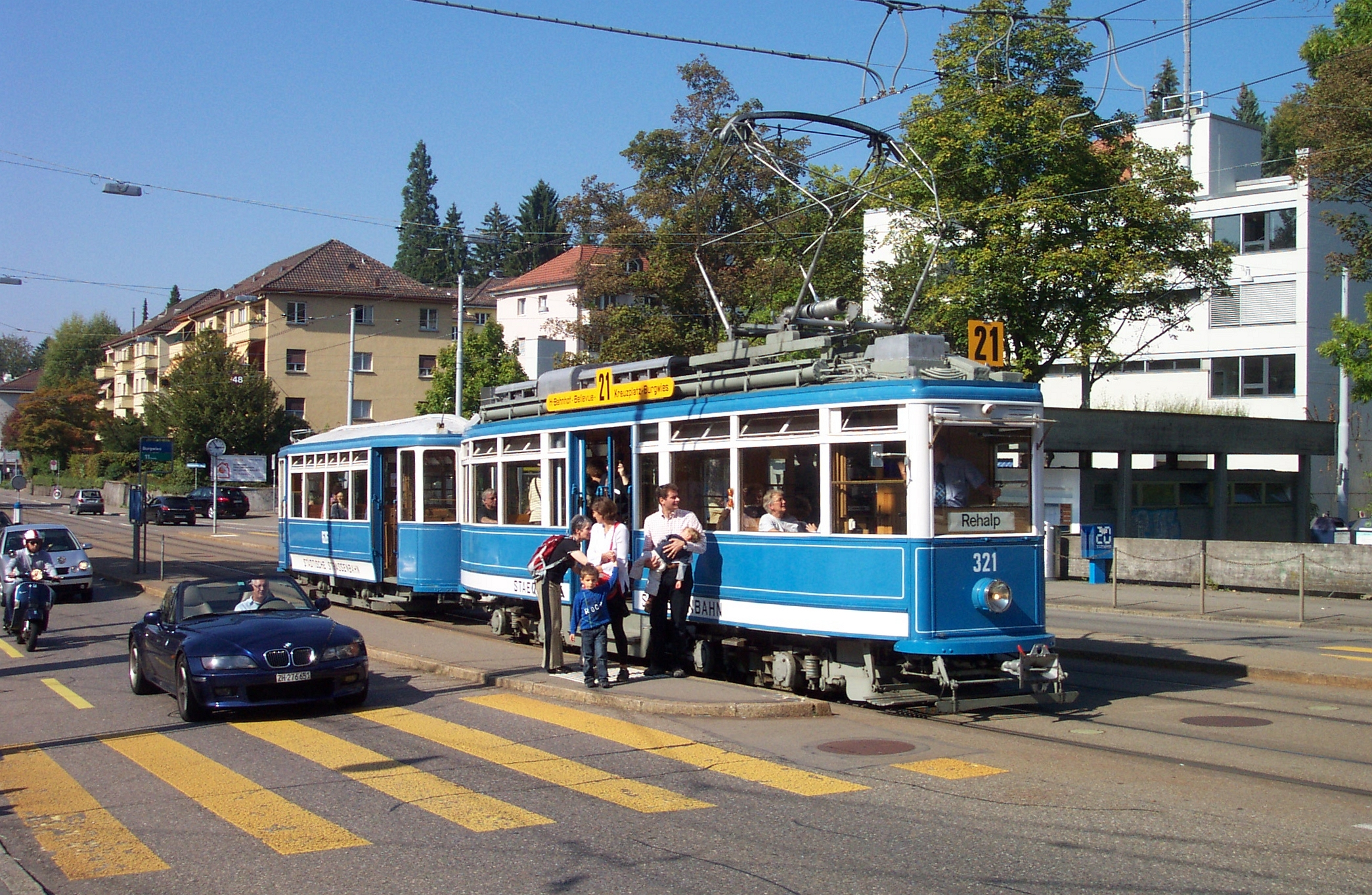 Elefant motor tram 321 hauling trailer 626 on museum tram route 21 at Burgwies tram stop on Forchstrasse, just outside the gates of the Zurich Tram Museum. Cars 321 and 626 were both built by SWS, in 1930 and 1925, respectively, and now form part of the Zurich Tram Museum's collection. For more information, please see Wikipedia article Zurich Tram Museum